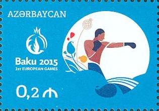 Baku 2015. First European Games.(2nd edition) N 1207 - 20 qapik – Boxing